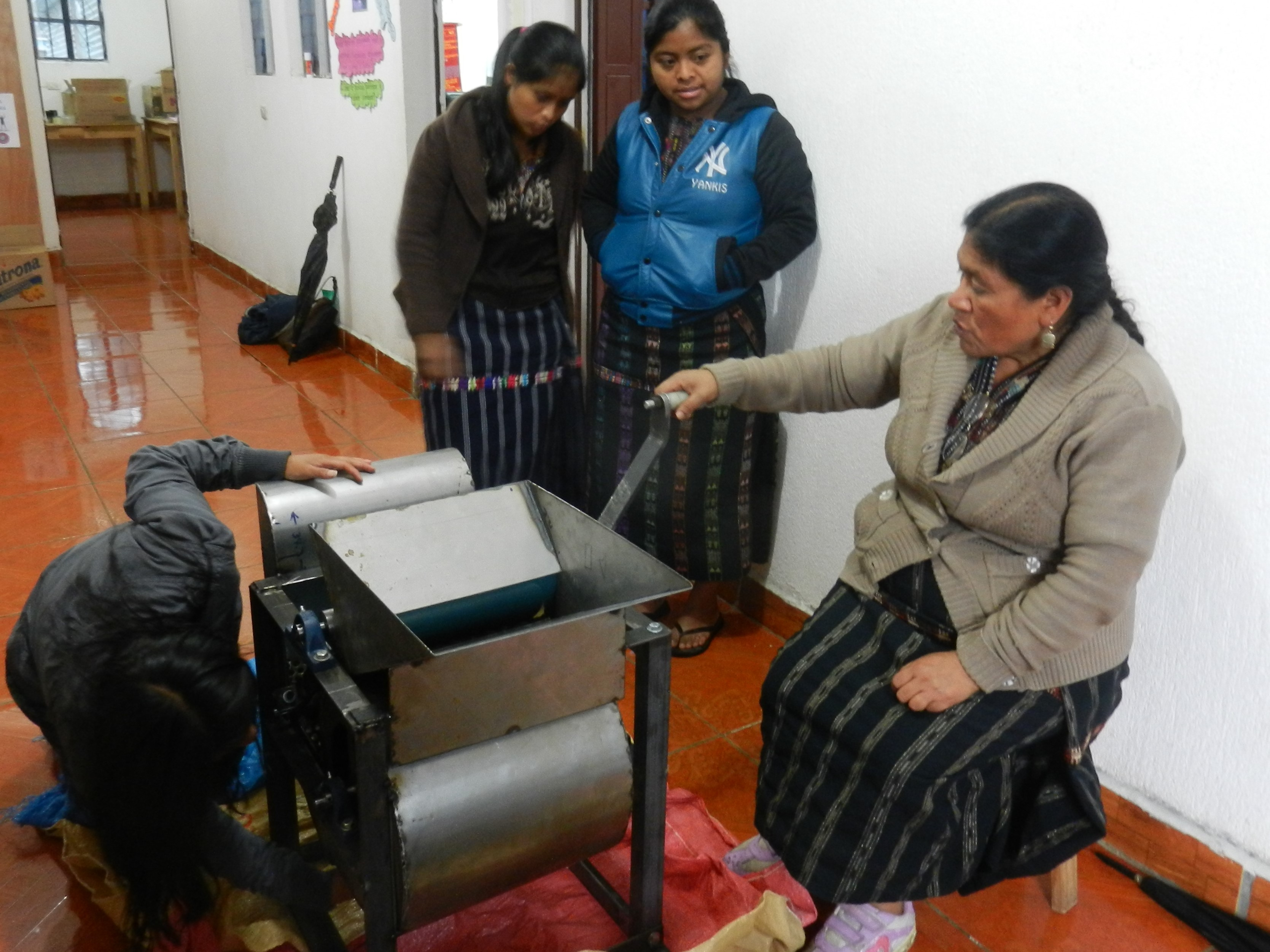 Hand powered or electric motor gently removed fine husks off amaranth seeds reducing the average workload from 3 days to 3 hours.